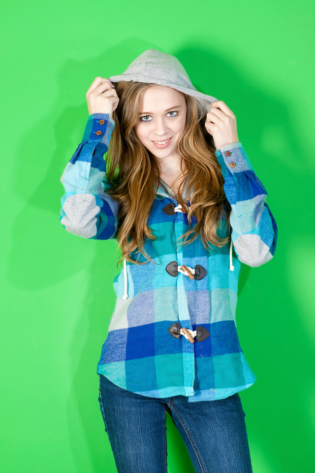 Girl wearing a blue hooded sweatshirt standing in front of a green screen.